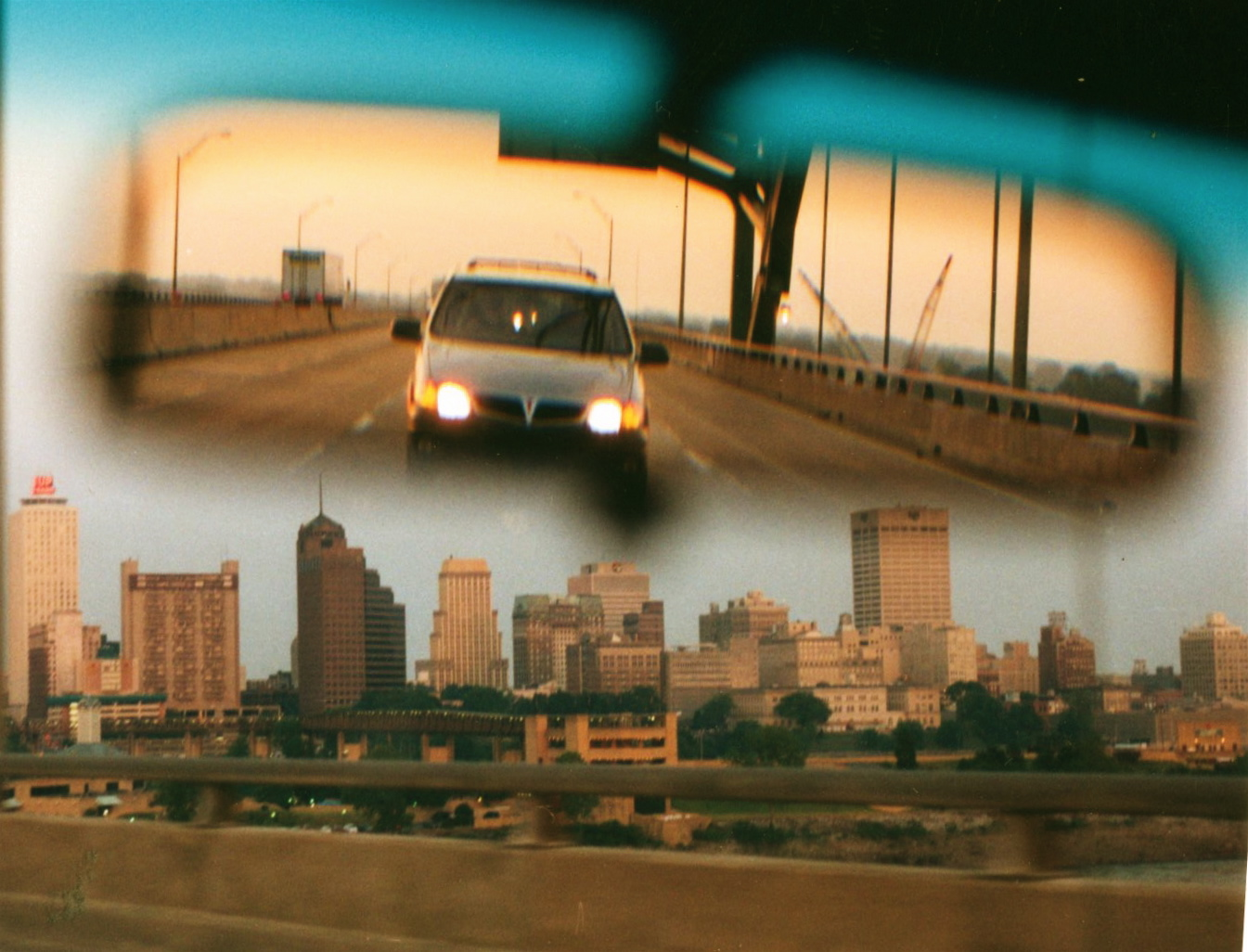 Hernando DeSoto Bridge takes Interstate 40 across the Mississippi River at Memphis. Photo's title is "Memphis in Front of Me, Arkansas in Back of Me."